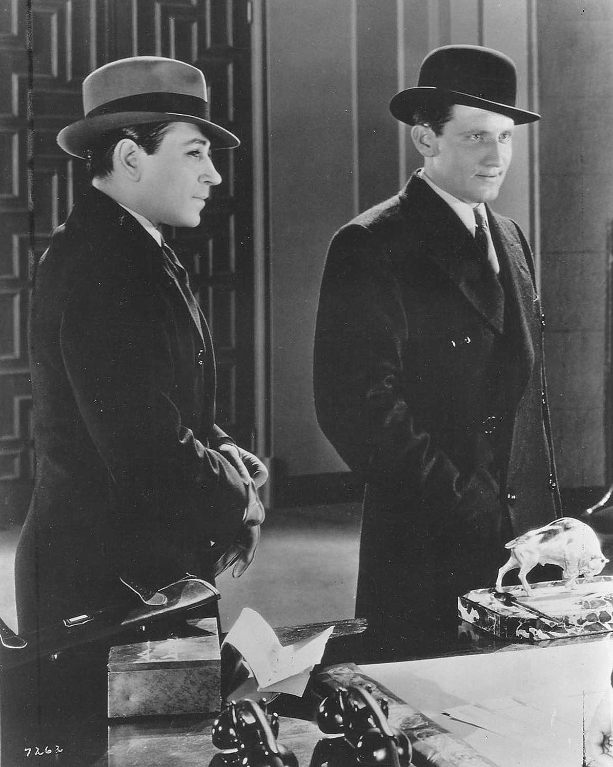 George Raft & Spencer Tracy in a scene from the 1931 film Quick Millions.